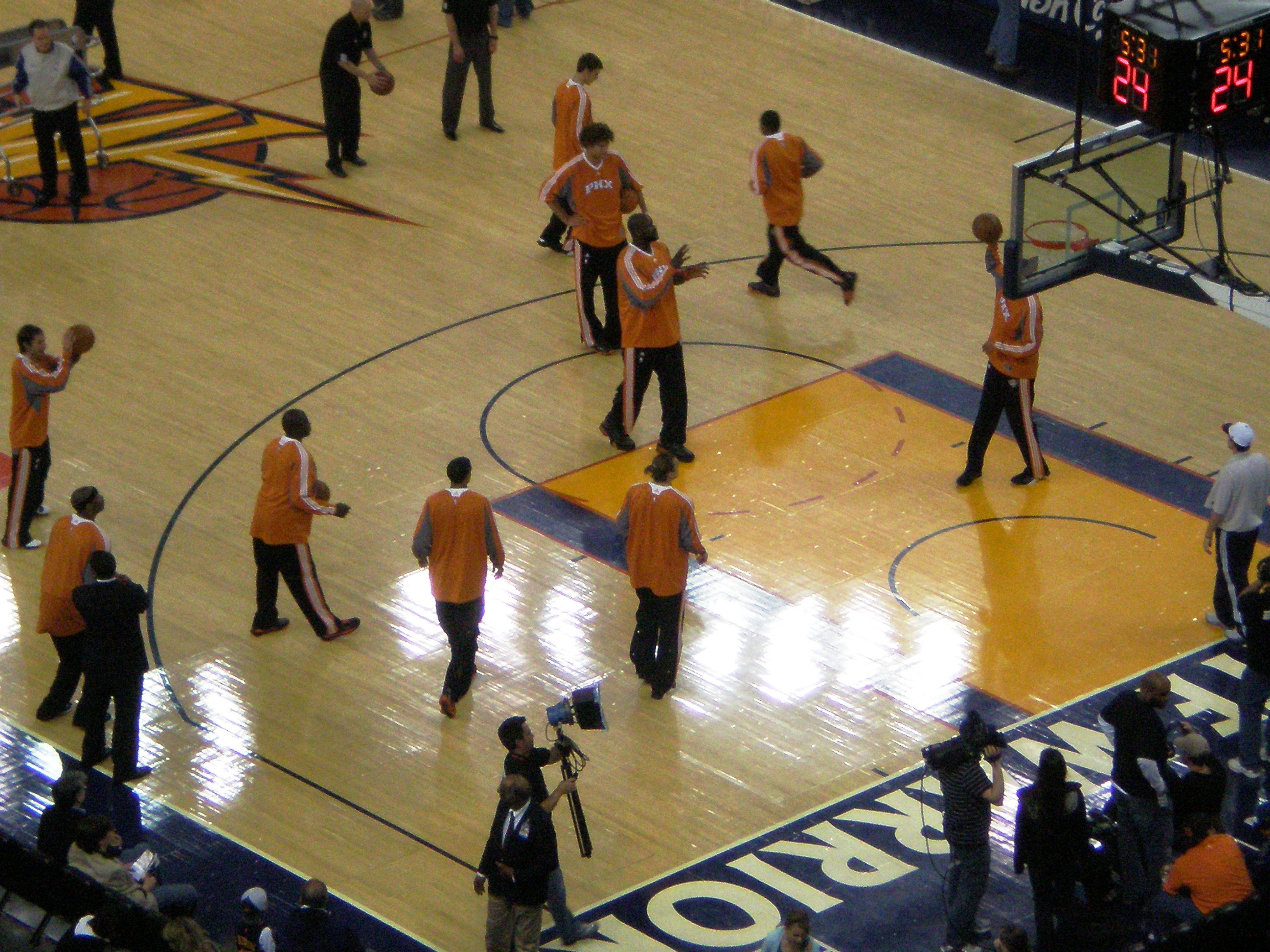 The Phoenix Suns in a shootaround prior the start of a road game against the Golden State Warriors at Oracle Arena. The Suns won 154-130.